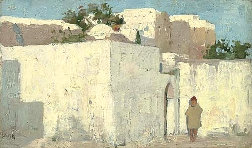 Waiting